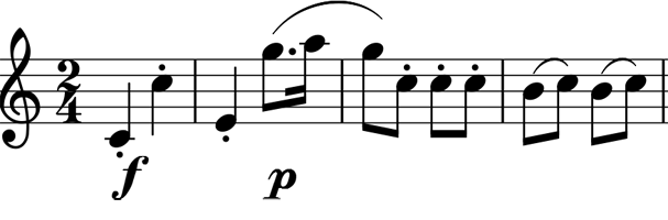 Joseph Haydn, Symphony No. 33, last movement, first violin, bar 1-4